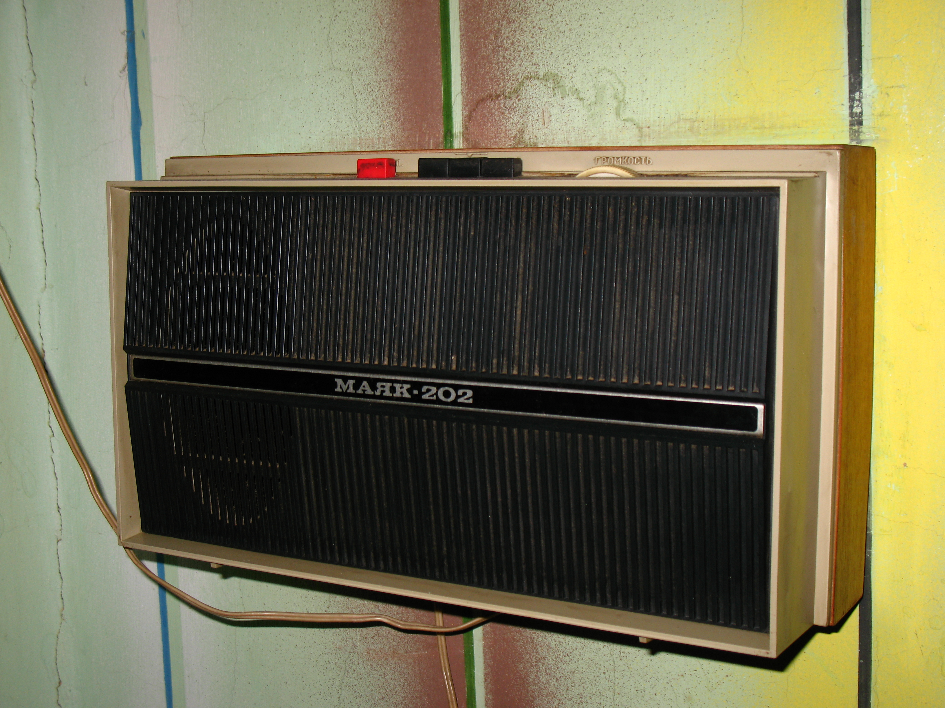 wire broadcasting three-channel receiver. USSR, 1980s.